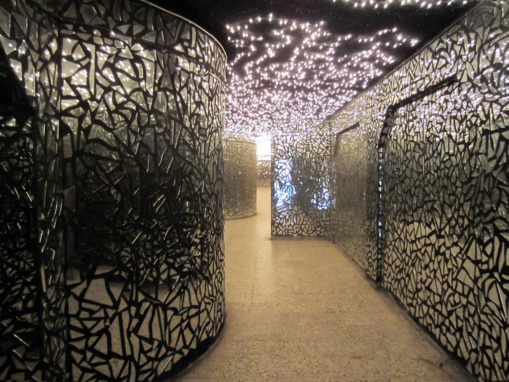 Victims of one of Saddam Hussein's campaigns are represented by broken glass and tiny lights at the Amna Suraka Museum in Sulaymaniyah.